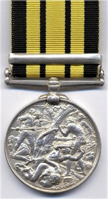 British campaign medal for service in various African expeditions between 1887 and 1900